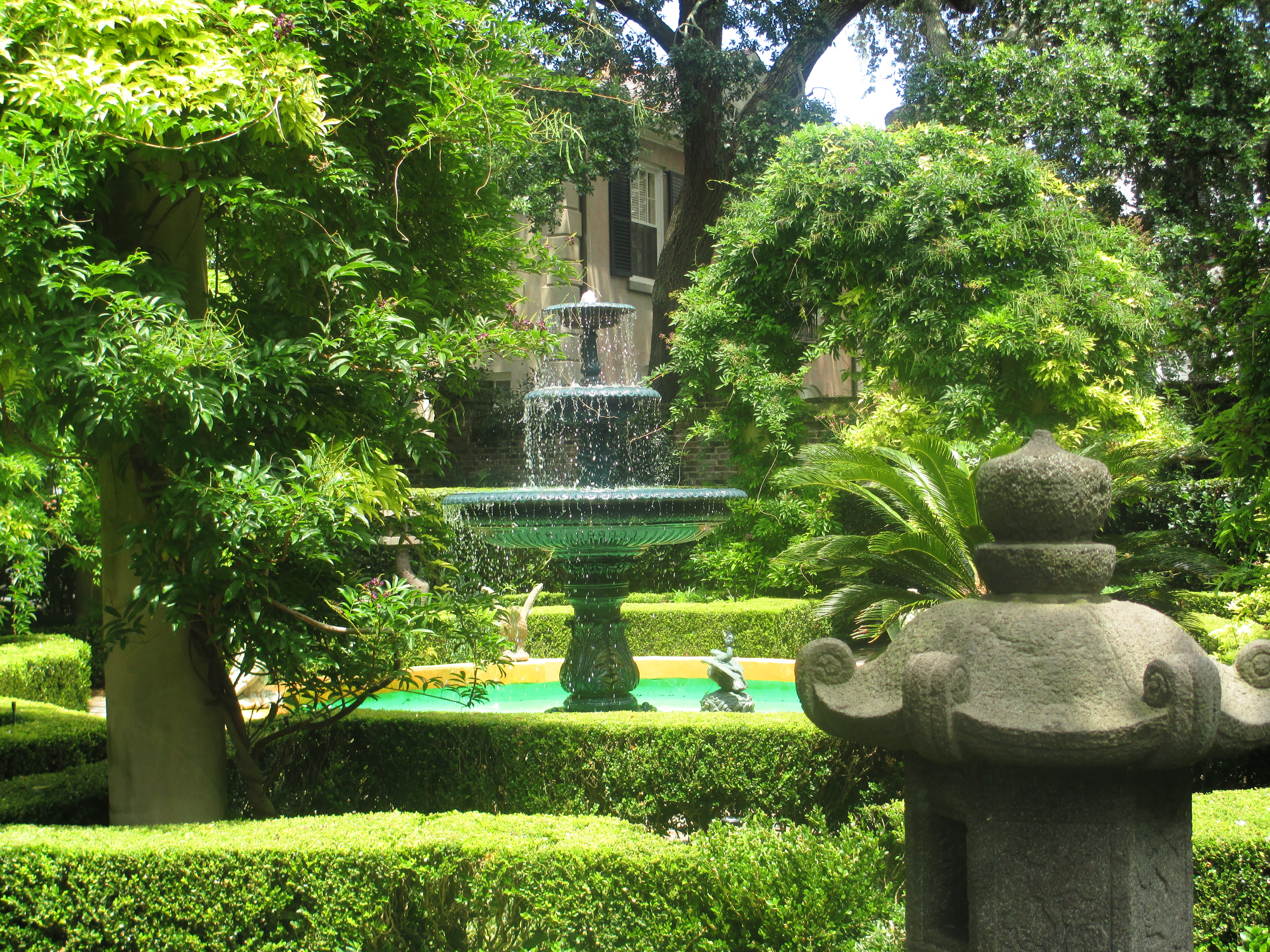 I took photo with Canon camera of garde3n at The Calhoun Mansion in Charlestoln, SC.